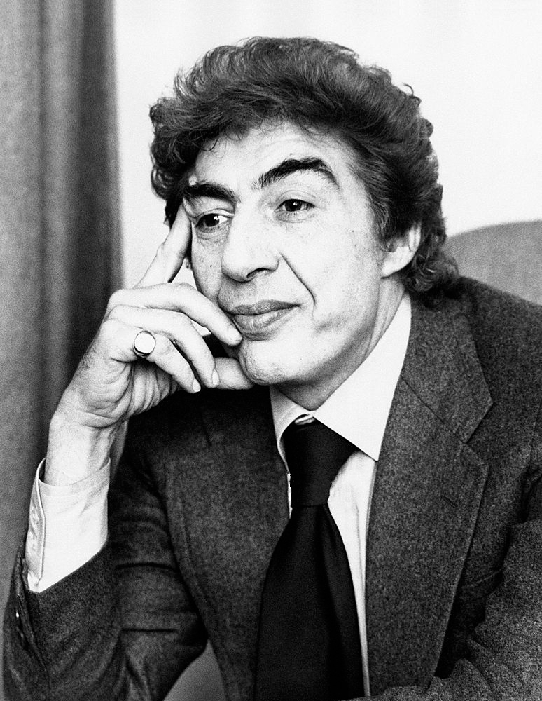 The comedian and actor Gino Bramieri in Milan.